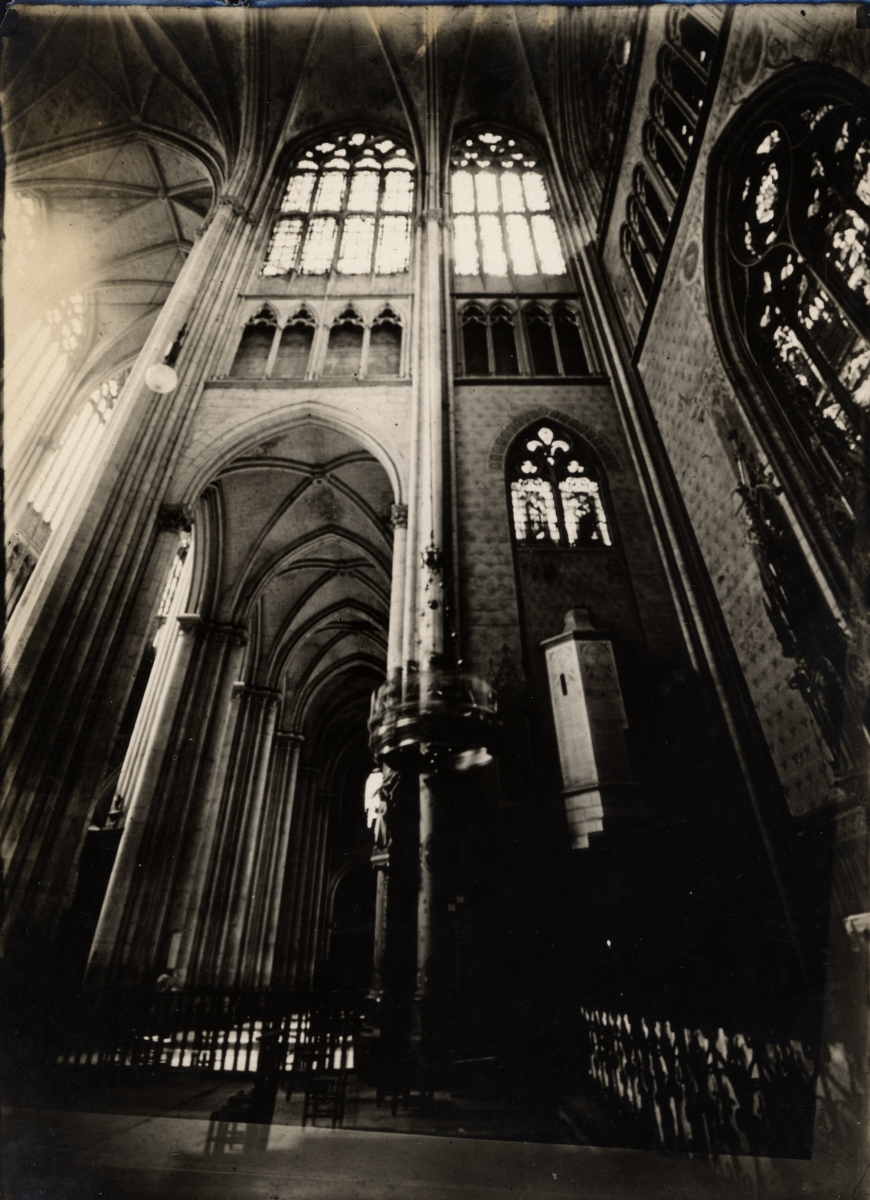 Croisillon nord du grand transept de la basilique de Saint-Quentin, France, n.d.. ID'd from envelope. Interior view. Oblique view toward ceiling. Brooklyn Museum Archives, Goodyear Archival Collection (S03_06_01_010 image 1224). Help us map this image by using Suggestify to suggest a location for it.